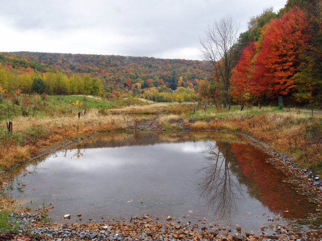 AMD & Art Project in Vintondale Vintondale, PA 1995 - 2005. Collaboration with Julie Bargmann, Landscape Architect. Robert Deason, Hydrogeologist and T. Allan Comp Historian Acid mine drainage pollutes hundreds of miles of streams in Pennsylvania. At Mine Number Six in Vintondale, in the coal mining region of south central Pennsylvania, artists, landscape architects, scientists and historians collaborated on ways to treat AMD while interpreting the coal mining history and the passive treatment processes. This project creates a public park and water treatment facility.